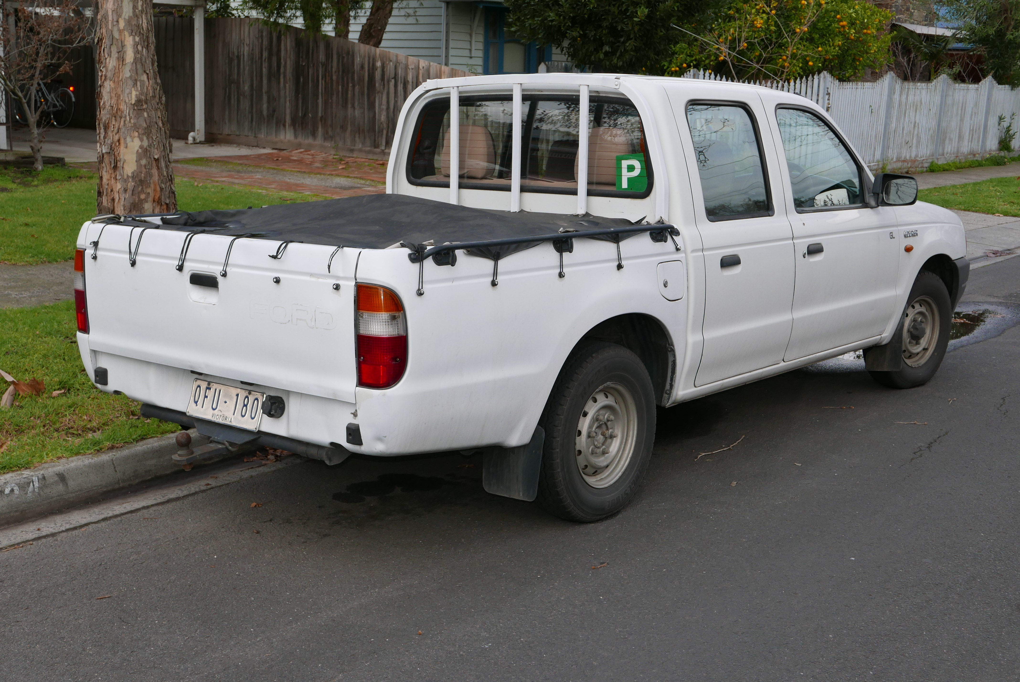 2000 Ford Courier (PE) GL 4-door utility. Photographed in Alphington, Victoria, Australia. Vehicle registration enquiry resultsJurisdictionVictoriaRegistrationQFU180Chassis codeMNABSFD70YW142796Engine codeG6235539Compliance date2000-04Year of manufacture2000